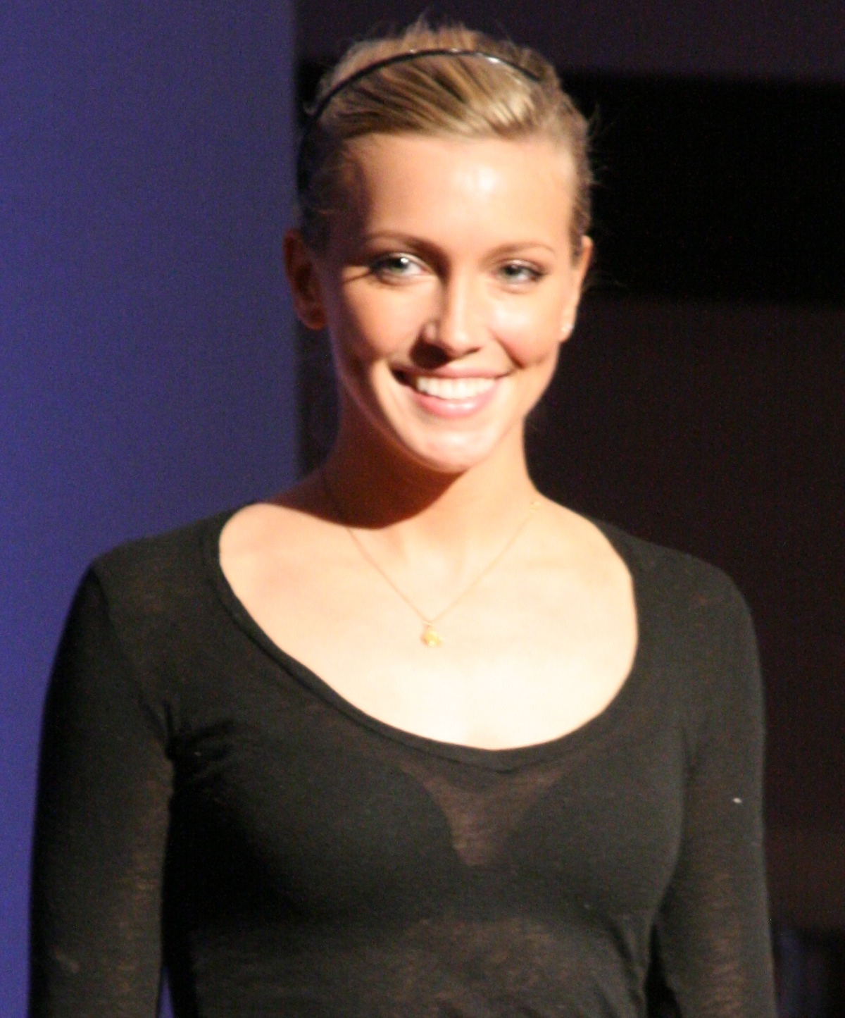 Actress Katie Cassidy